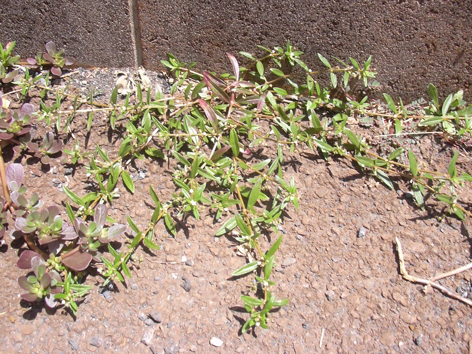 Hedyotis corymbosa (habit). Location: Maui, State nursery Kahului